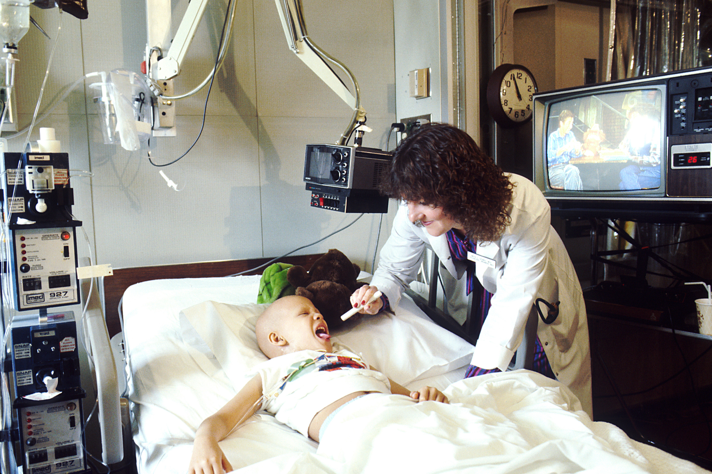 Title Doctor Examines Pediatric Patient Description A Caucasian female Physician examing pediatric patient whose is receiving chemotherapy. Topics/Categories People -- Adult People -- Child People -- Health Professional and Patient Type Color, Photo Source National Cancer Institute